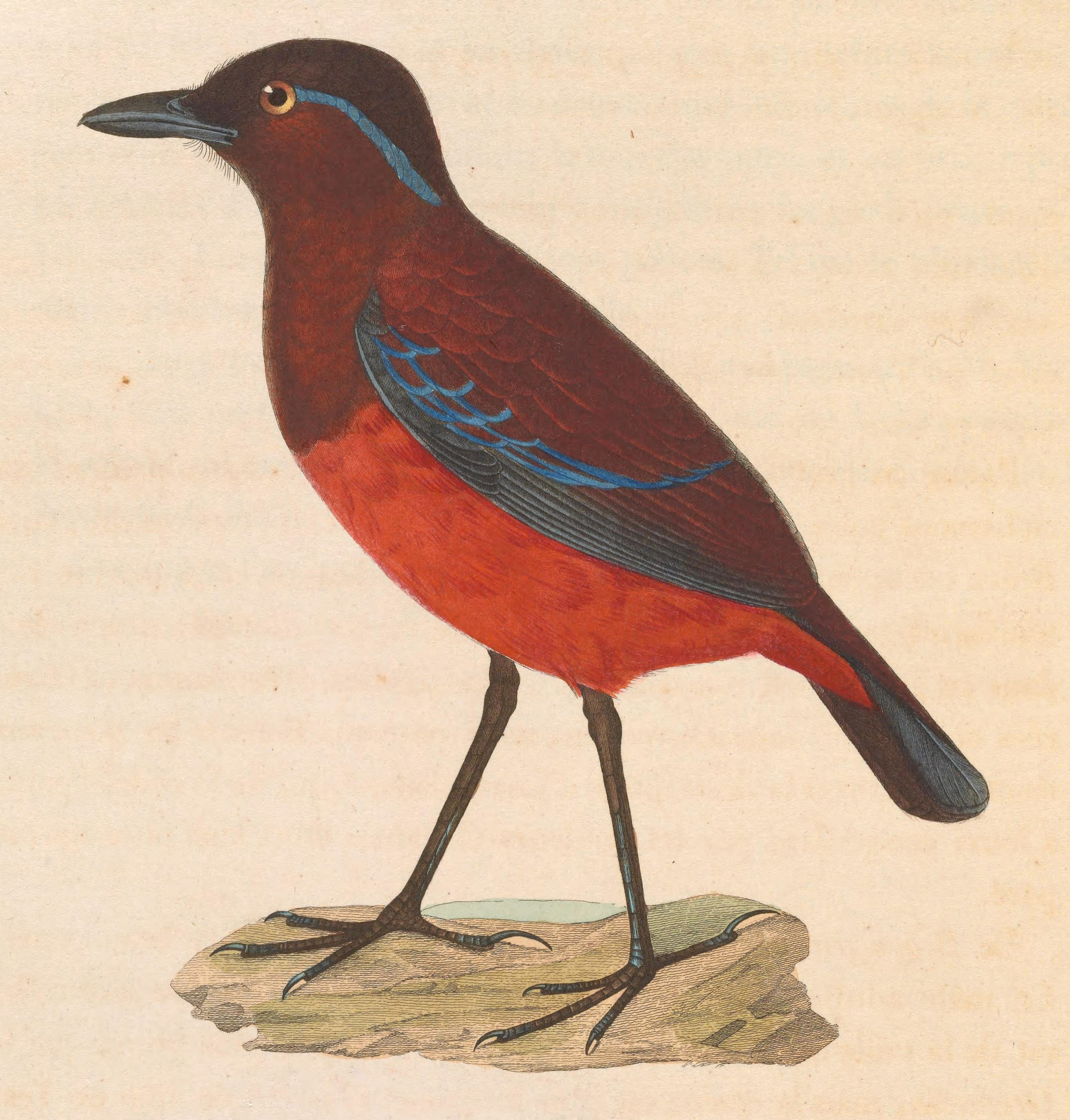 « Pitta venusta » = Erythropitta venusta (Graceful pitta) - adult male